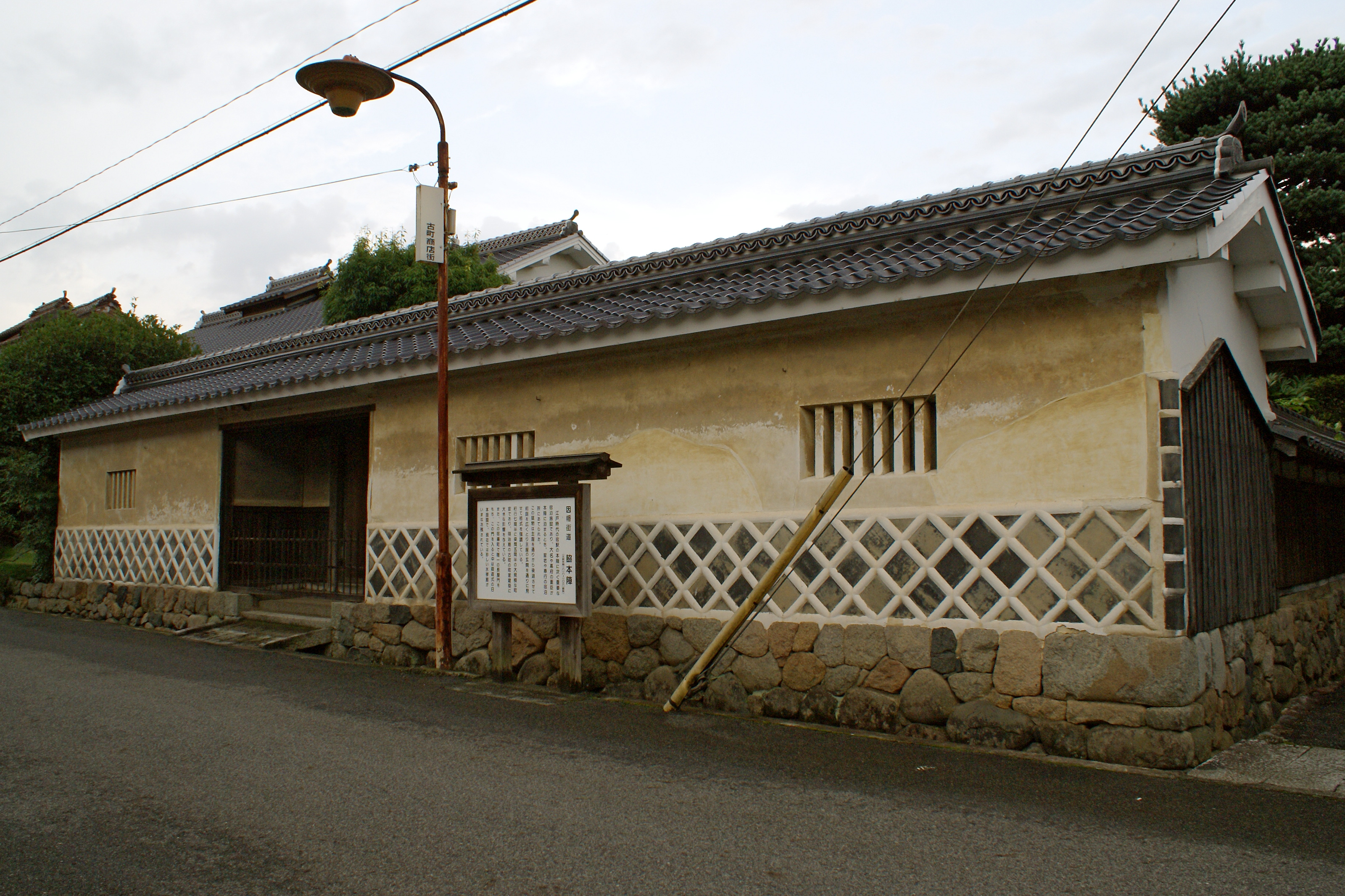 a street scene of Ohara-juku in Mimasaka, Okayama prefecture, Japan